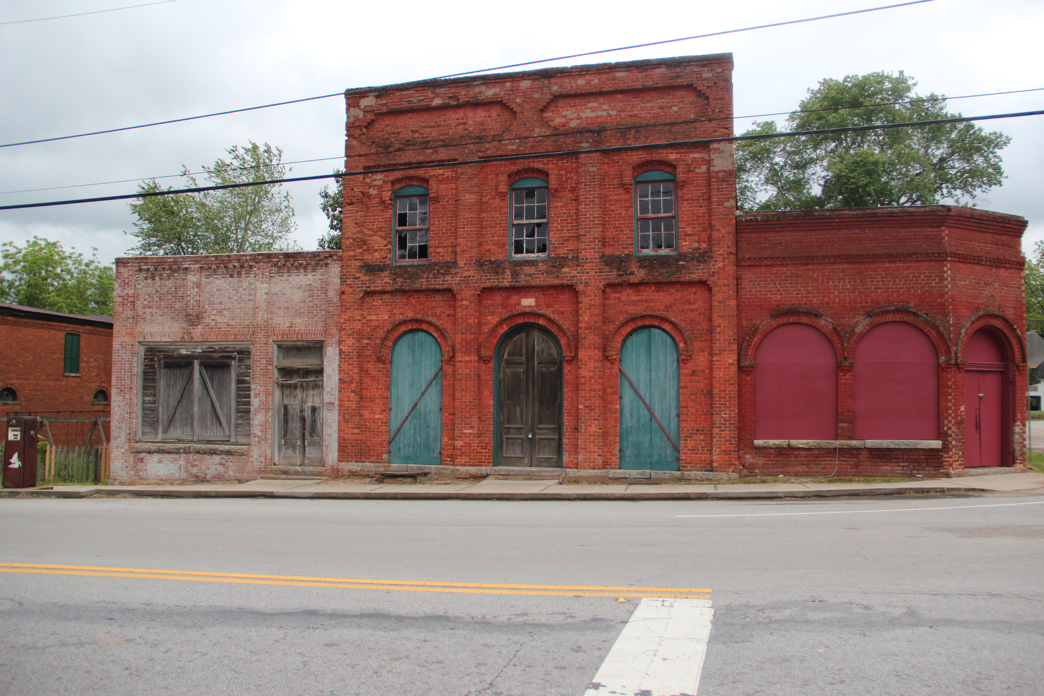 Abandoned stores in Buckhead, Georgia